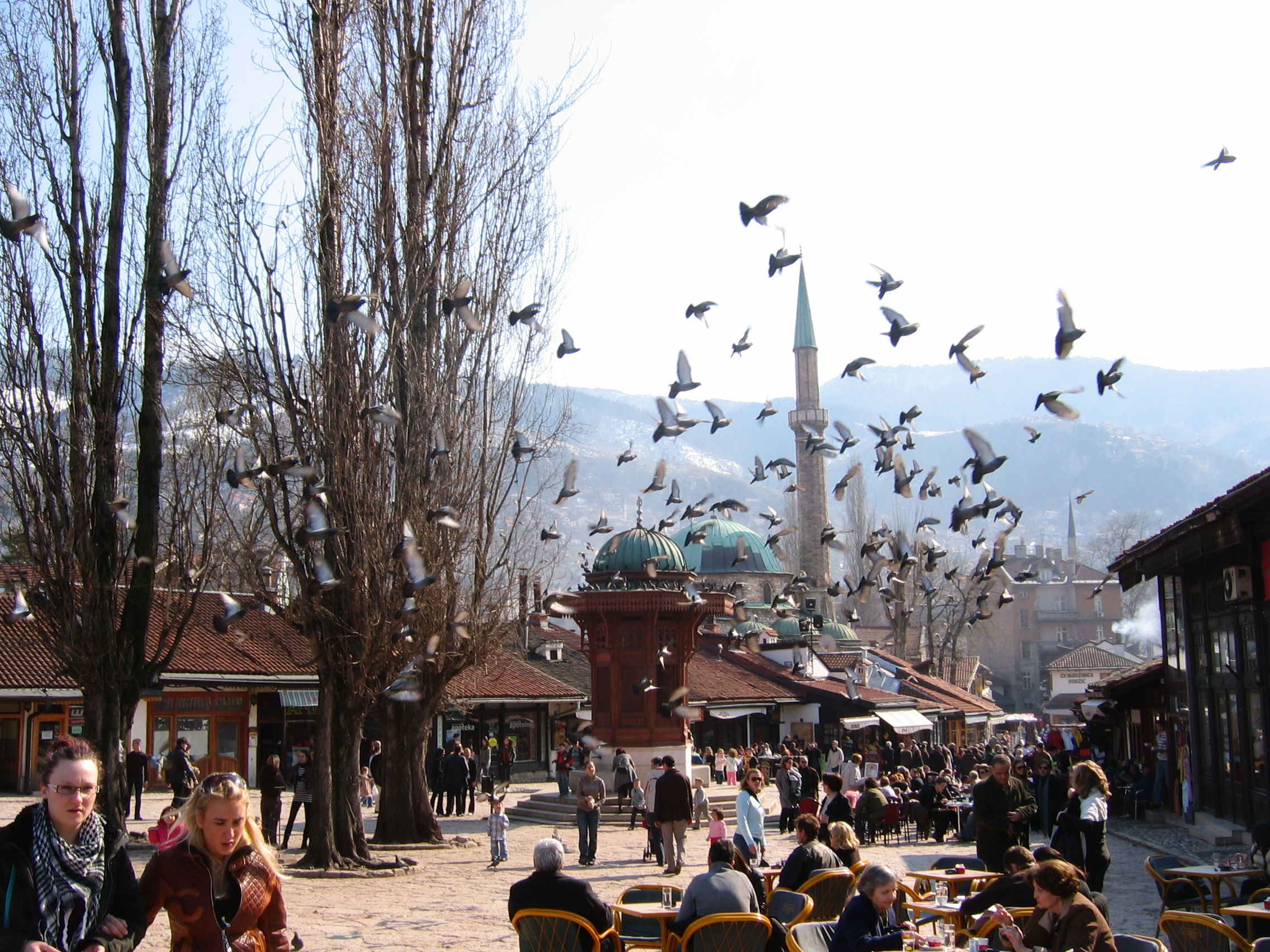 Sebilj in Baščaršija with doves flying.